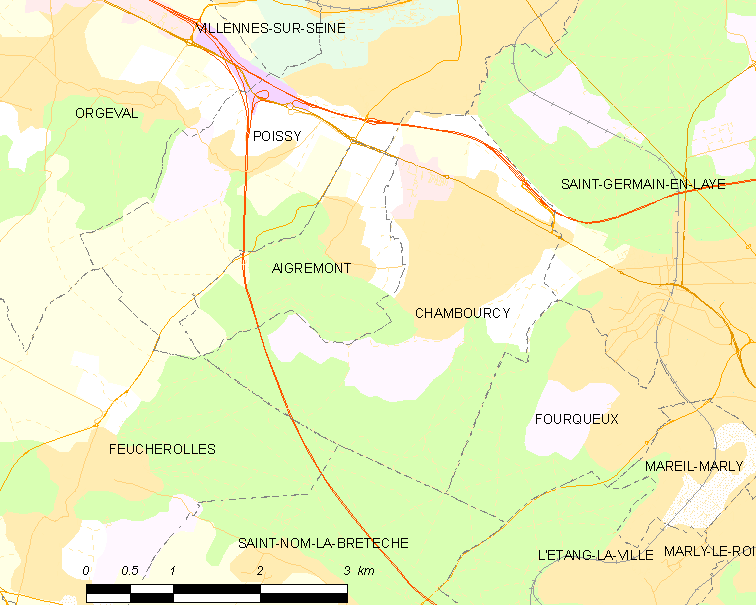 Map of French municipality Chambourcy